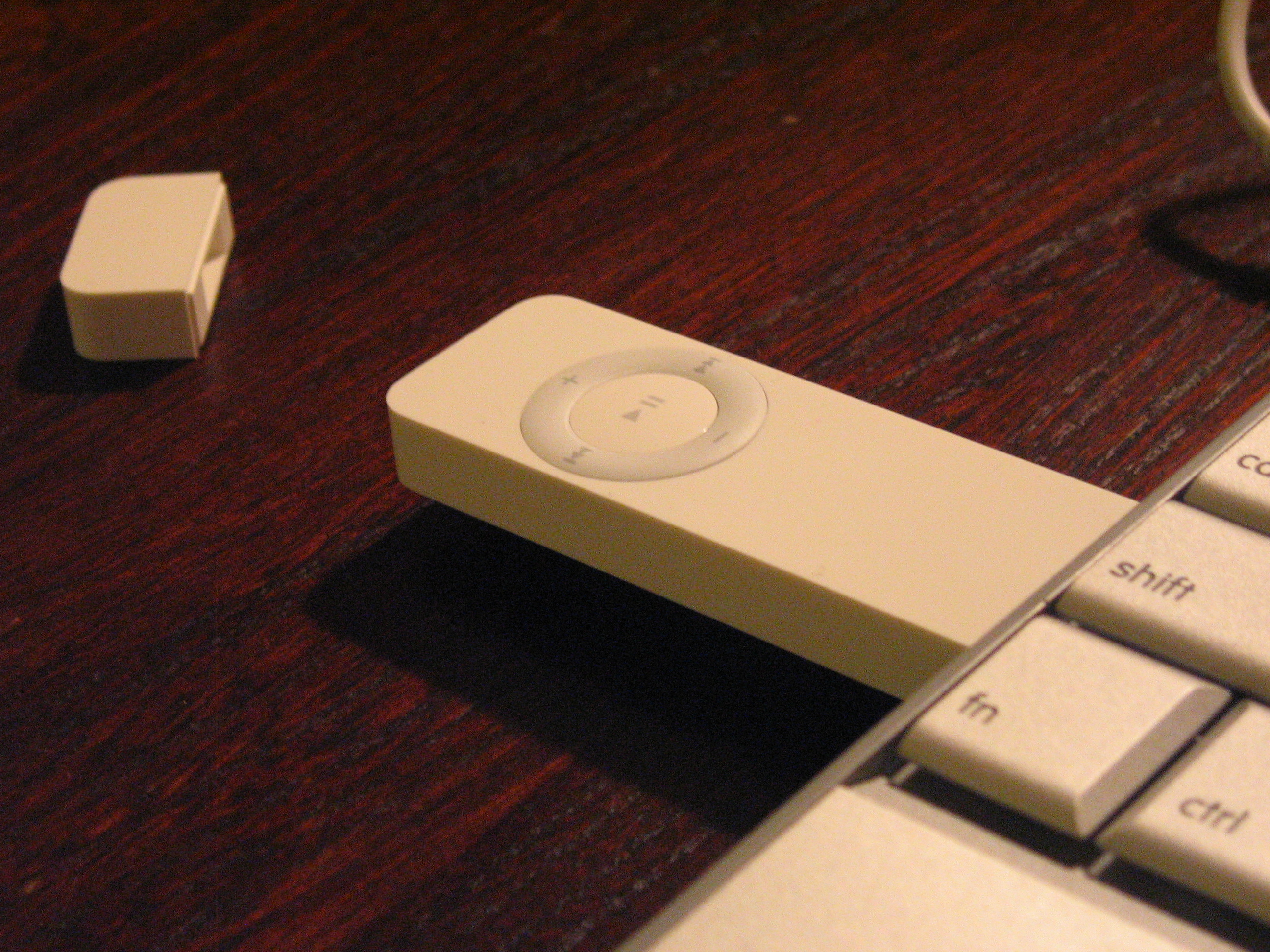 An iPod shuffle MP3-Player connected to a notebook